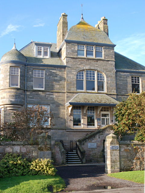 Castle House Castle House, St Andrews On the Scores by the castle.